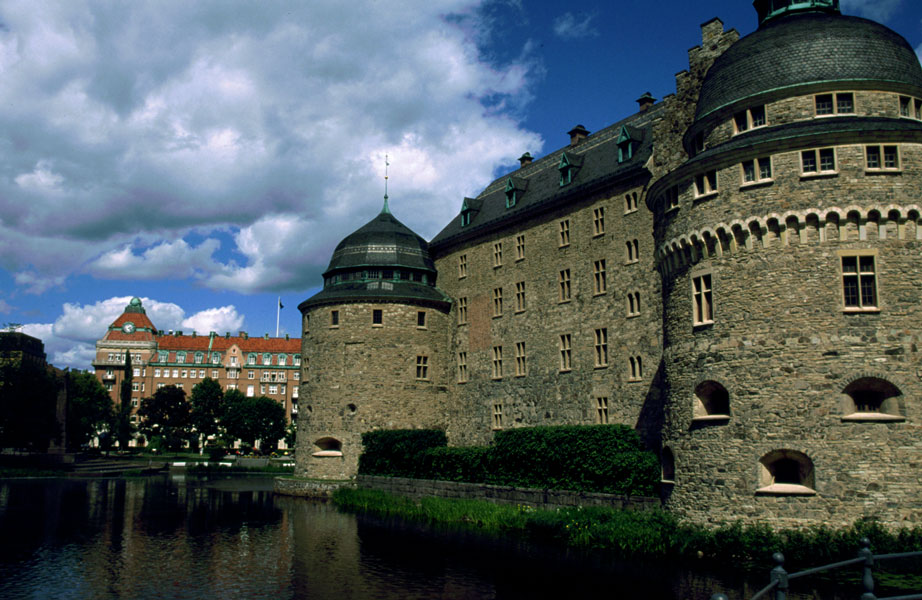 Örebro Castle, Sweden, May 2004